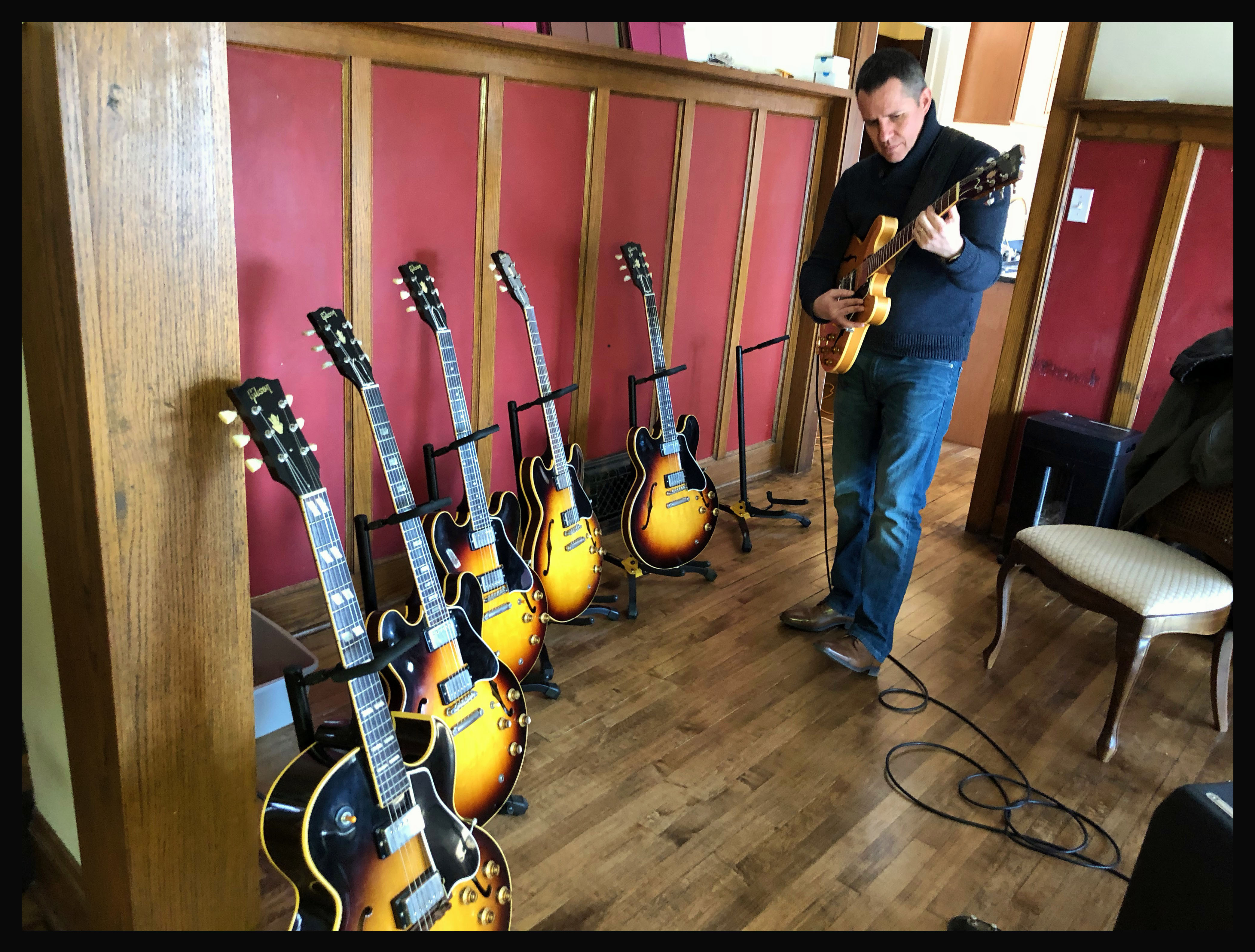 Guy King with vintage Gibsons